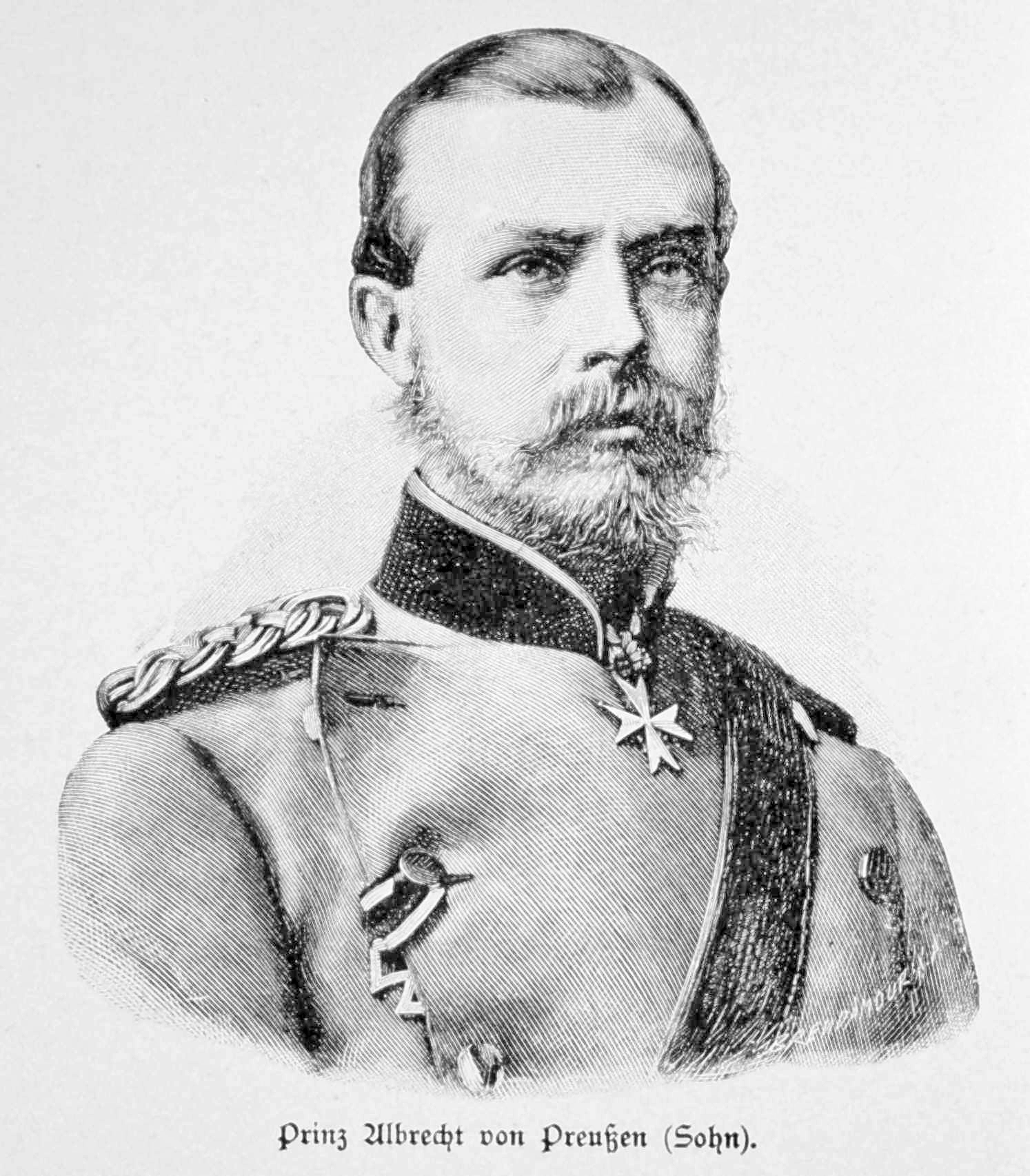 prince Albrecht von Preußen (son)